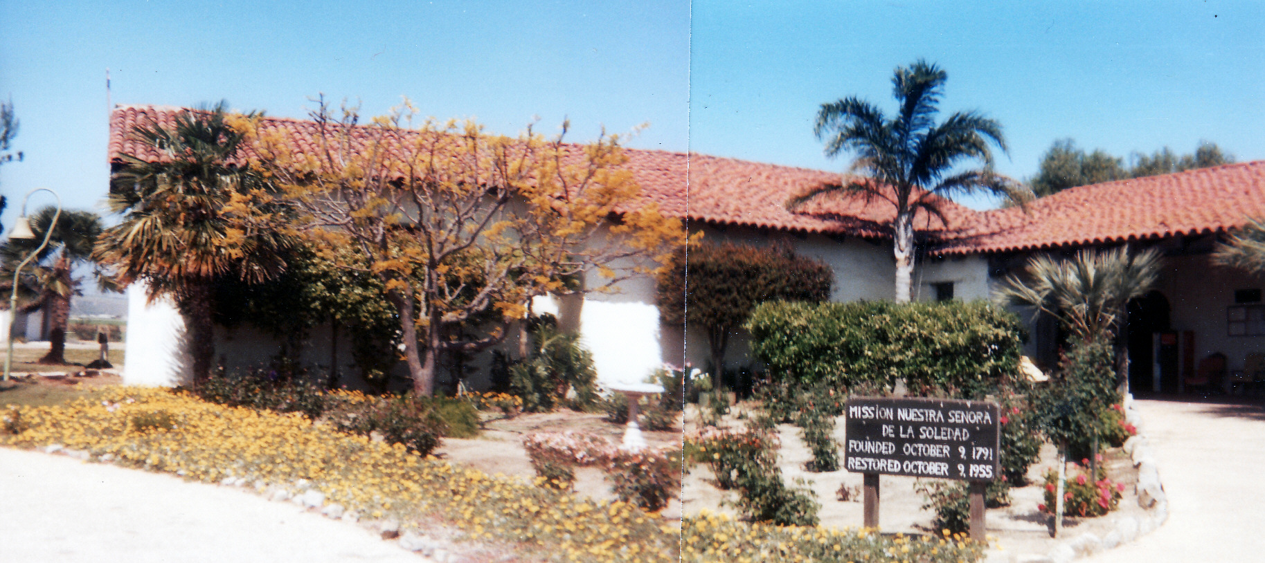 Mission Nuestra Señora de la Soledad, California's 13th Franciscan Spanish mission. Photo taken by Robert E. Nylund